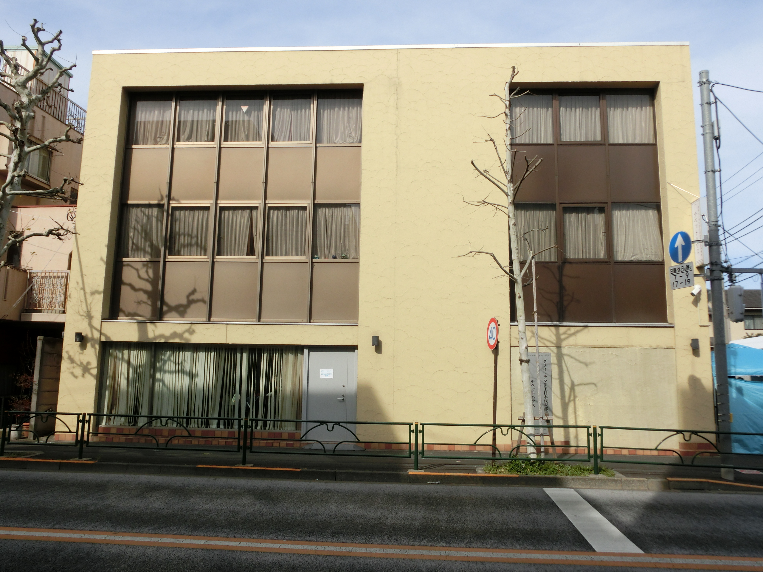 Liaison Office of His Holiness the Dalai Lama for Japan & East Asia